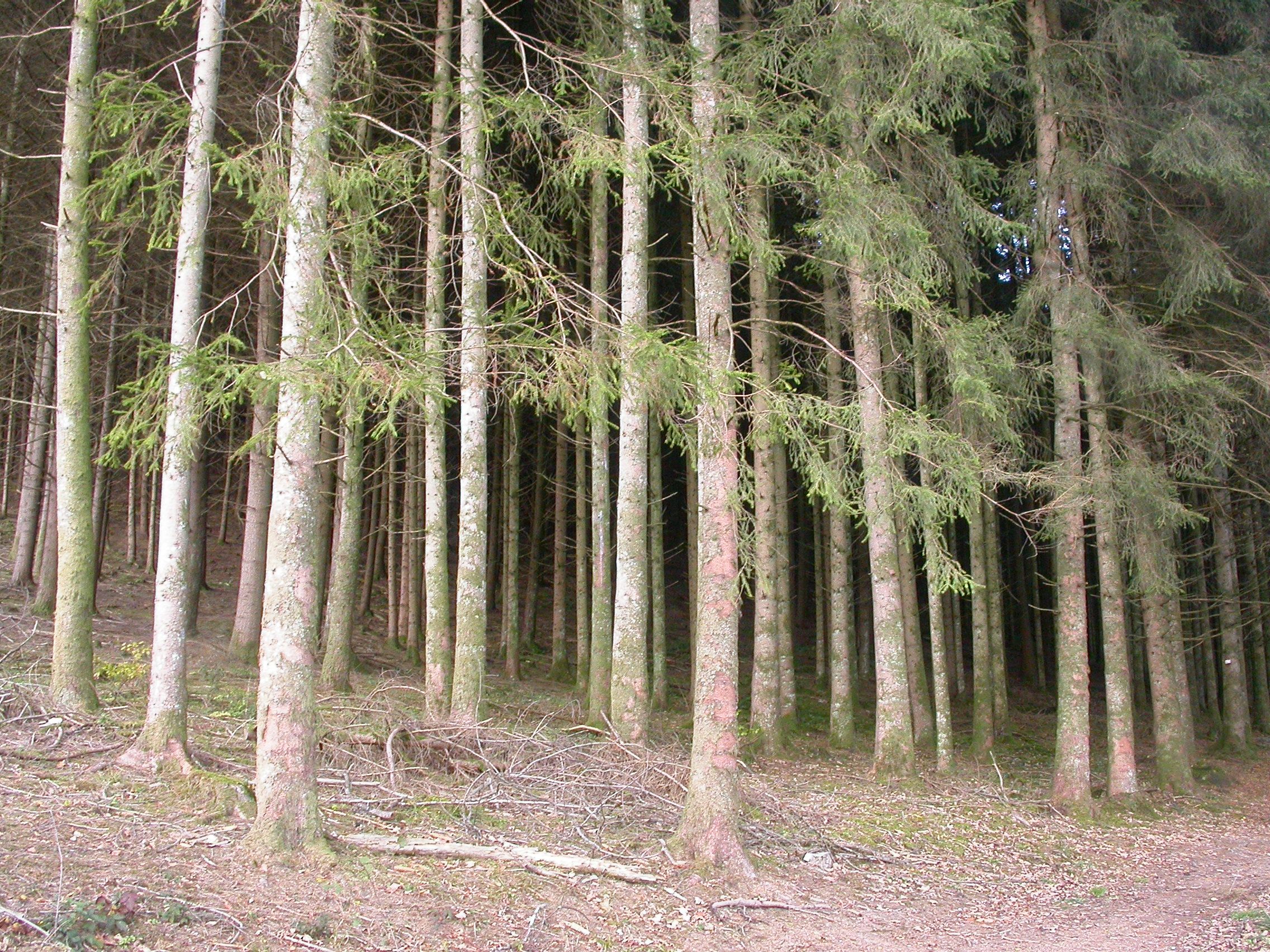 Almost nothing is able to live in such kind of woods...